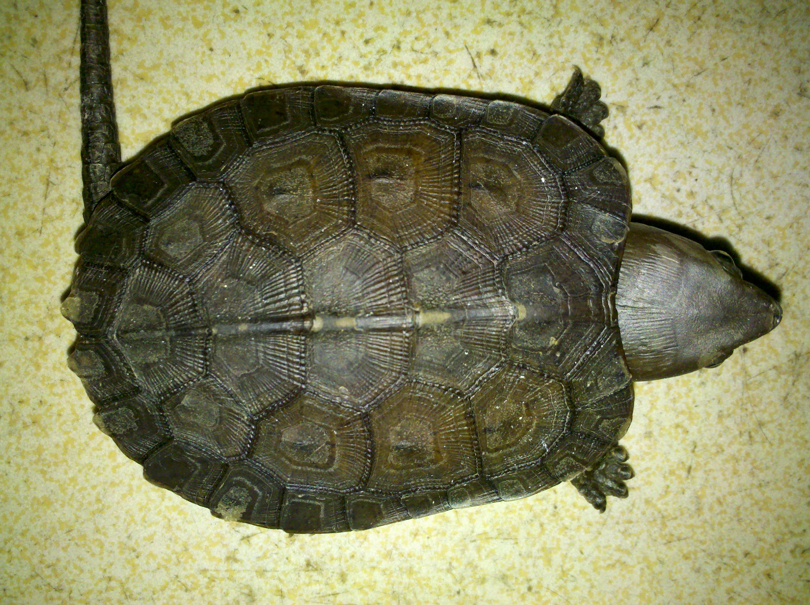 中国鹰嘴龟 幼体 头部